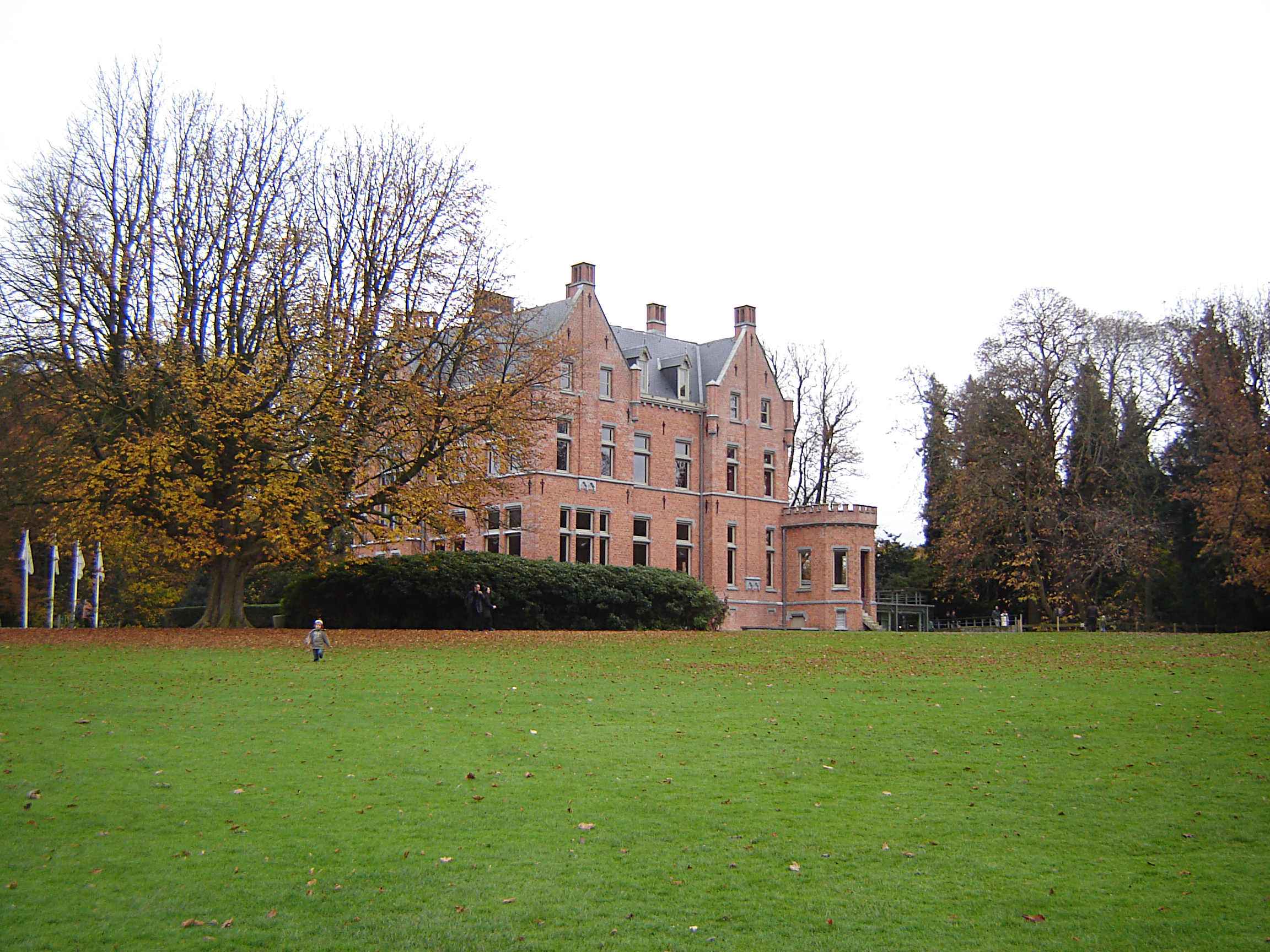 Bulskampveld Castle in Beernem. Beernem, West Flanders, Belgium